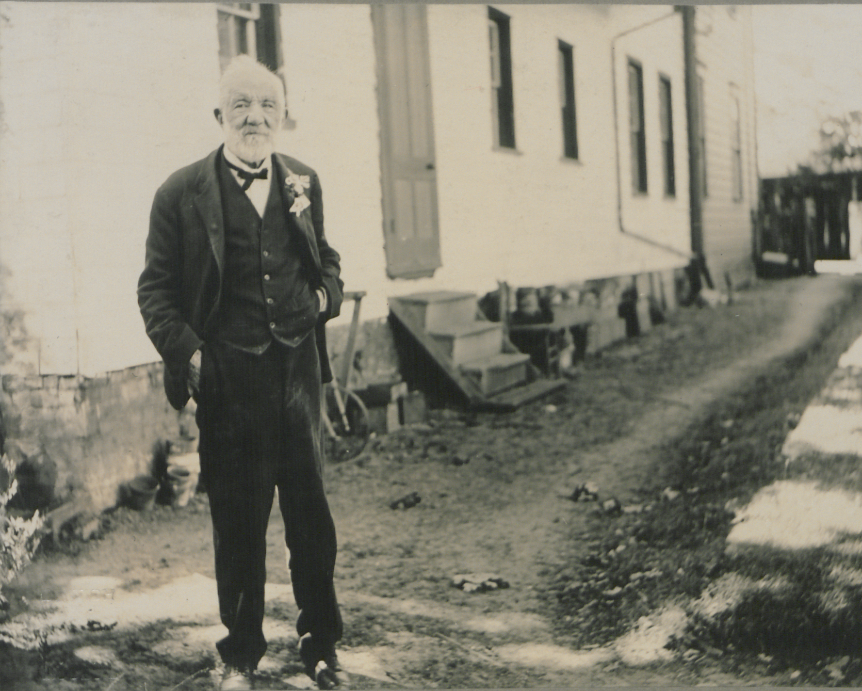 Original caption: “Photograph of Hon. John Sebastian Helmcken.”